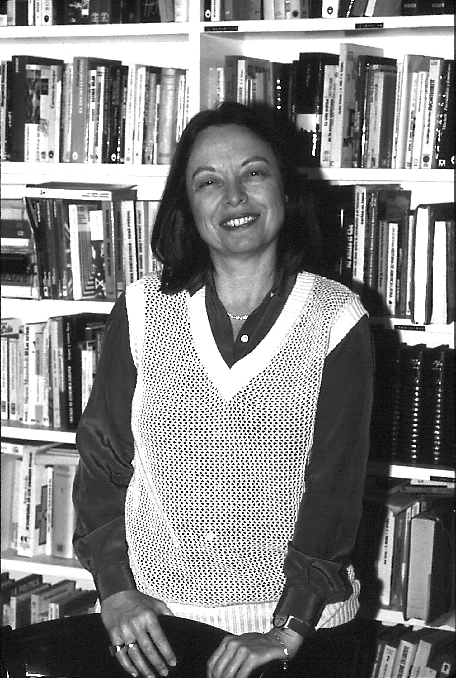 Nélida Pinon by Elisa Cabot